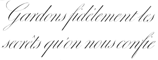 Sample of English round hand in Pierre Picquet, Recueil d’exemple variés d’écriture anglaise, 1820. The text means: "Keep in the heart the secrets that others confide in us."